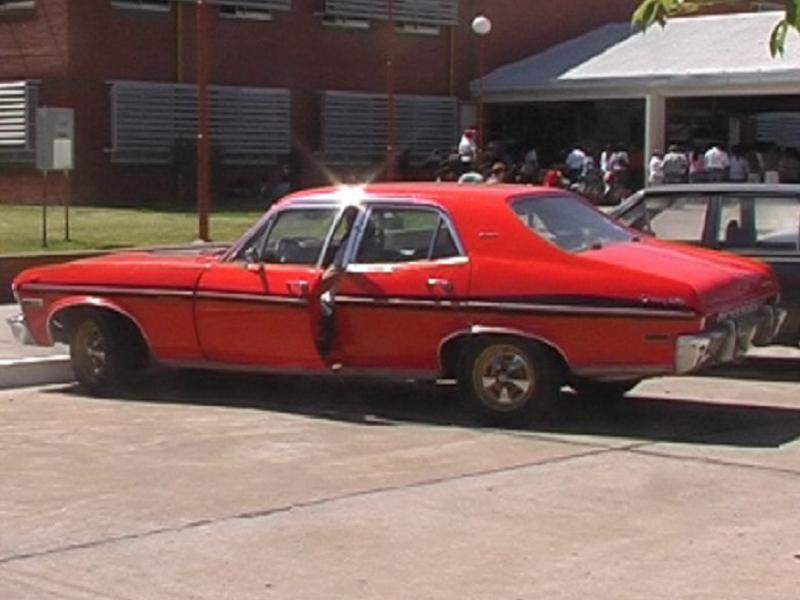 Image:Chevy_Serie_2.JPG